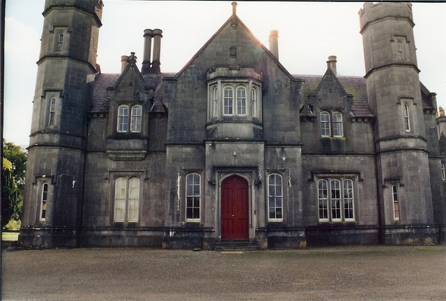 Longford - Carrigglas Manor House - North view This Tudor Revival style manor house was built with blue-grey limestone in 1837 by Thomas Lefroy of Huguenot descent and is still owned by the Lefroy family. Our tour group was able to see the interior, but photos are not permitted, as the house is a private residence. Included in the interior are a formal entrance hall with a stained glass window, a drawing room with an unusual ceiling, a library, a dining room, and numerous bedrooms. The ground include a unique & famous stable yard that was designed in 1970s by James Gandon, the architect who designed Customs House and Four Courts in Dublin.